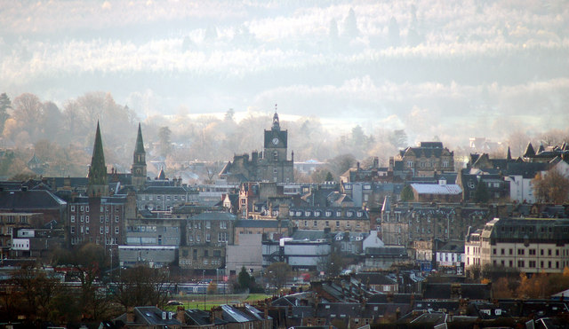 Stirling, Scotland, seen from the Abbey Craig